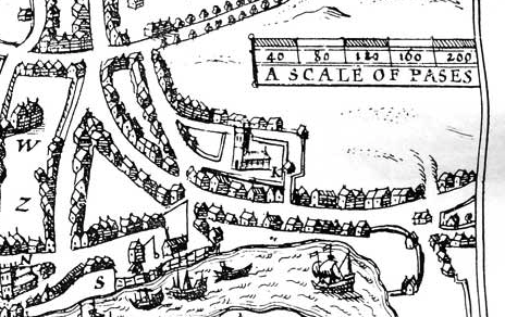 Seventeenth century image of curved street